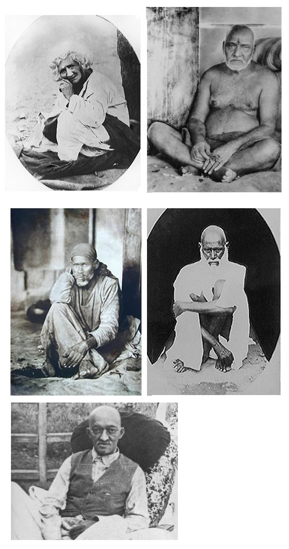 The Five Perfect Masters of Meher Baba, India